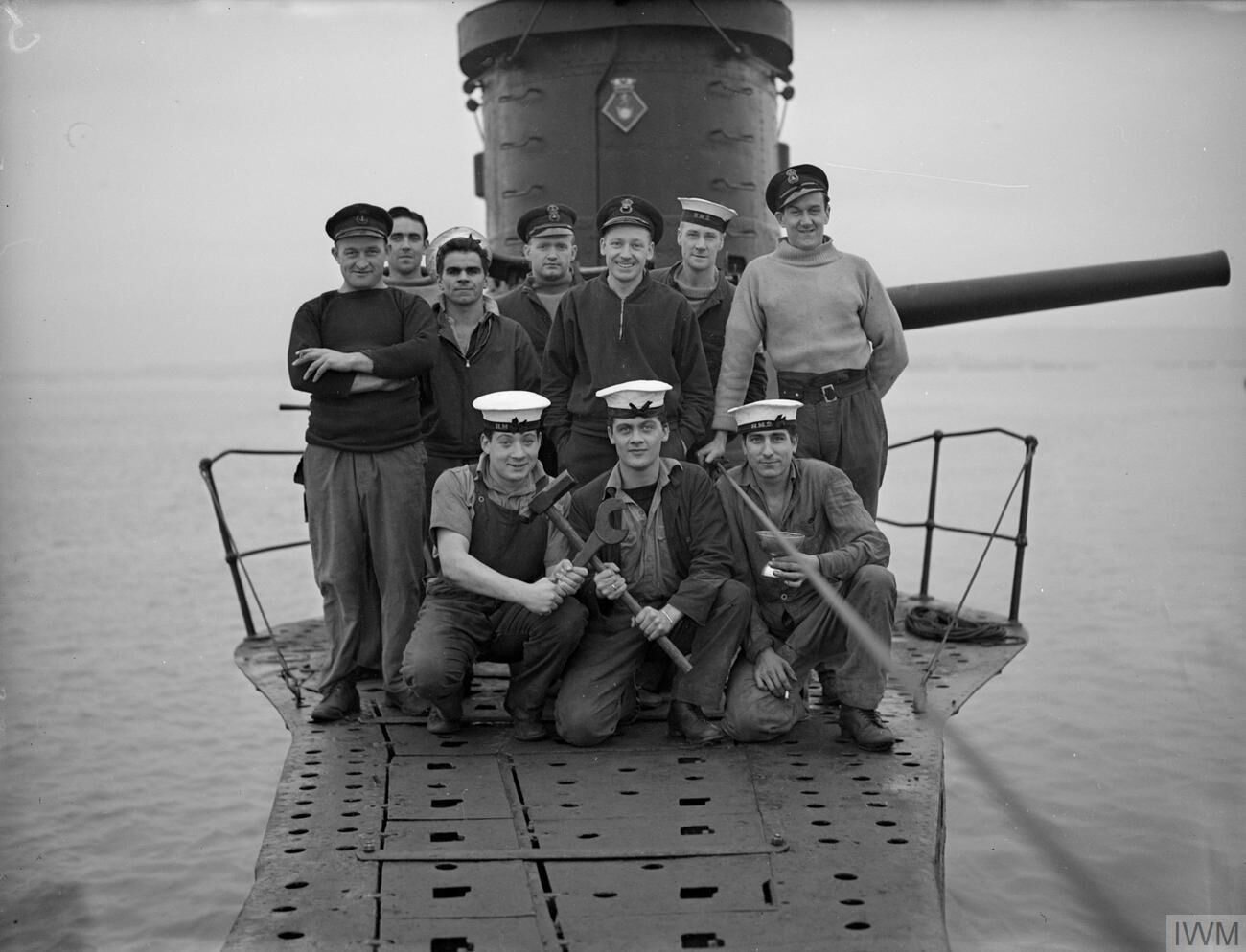 A group of stokers of HM Submarine UNSEEN.